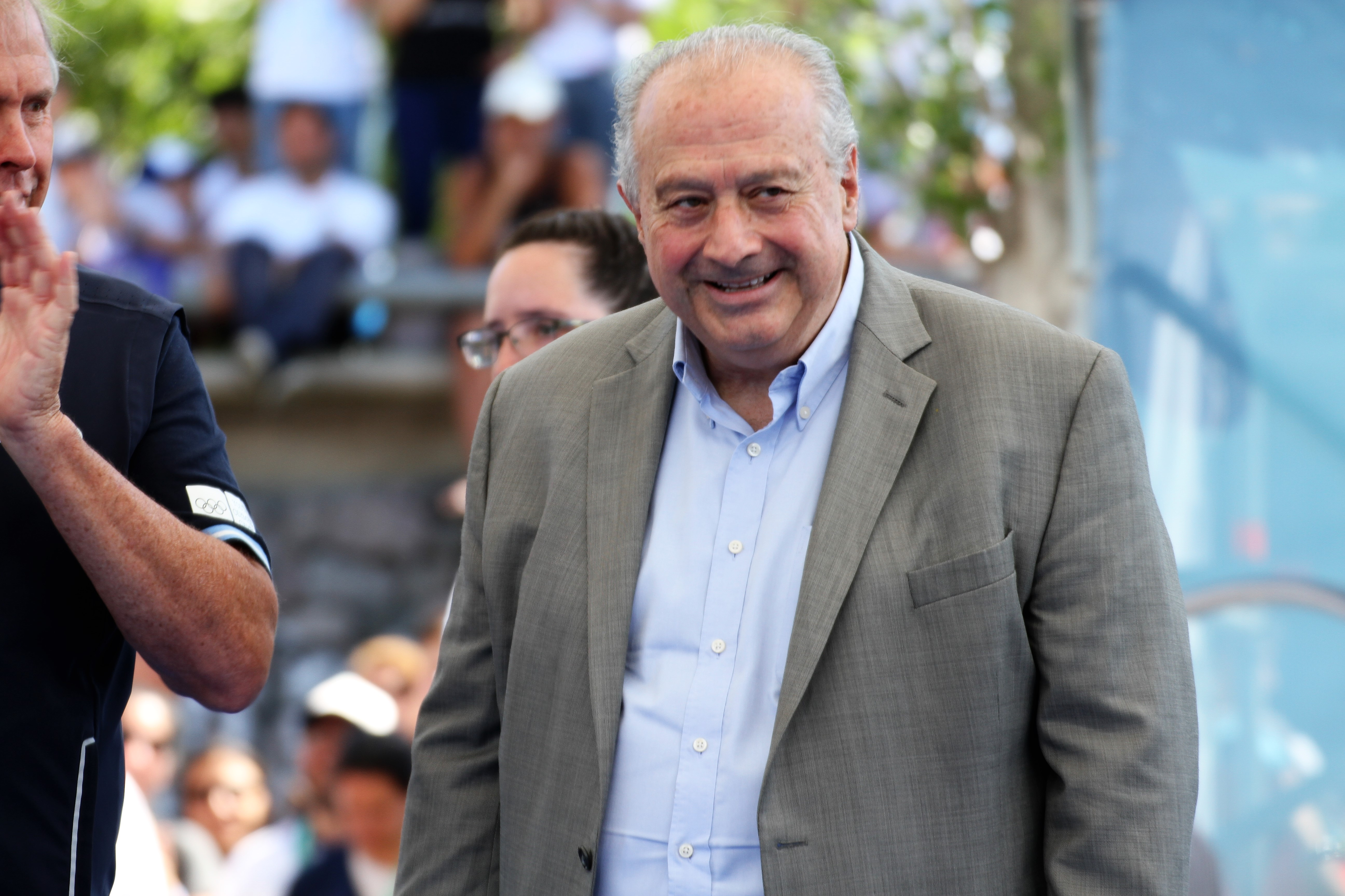 Victory ceremony of the mens 3x3 basketball tournament of the 2018 Summer Youth Olympics.